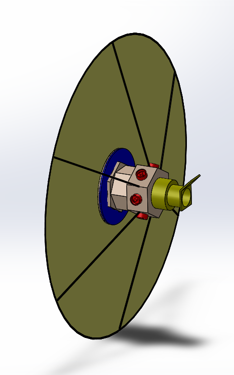 Rendering of the winning entry to the Project Dragonfly Design Competition